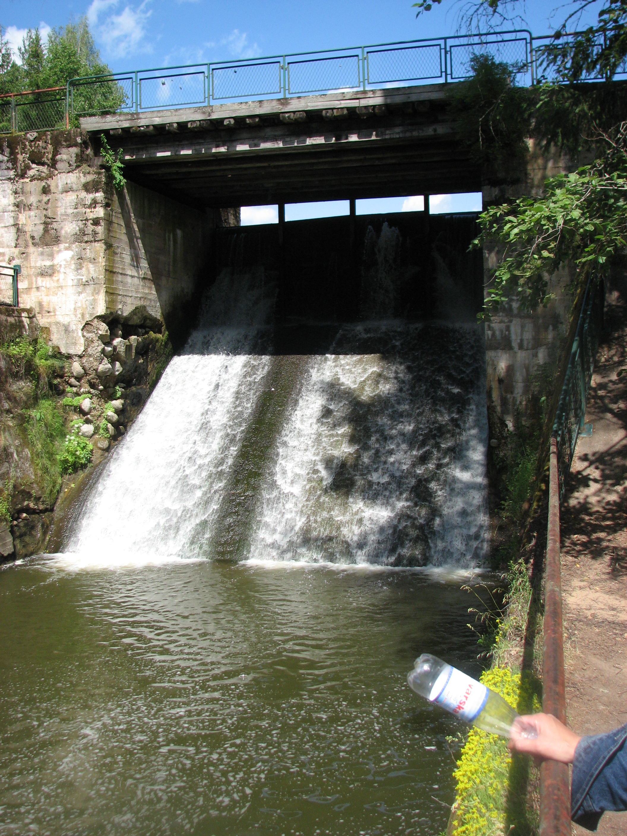 Dam of the Saesaare hydroelectric power-plant. Ahja river, Estonia